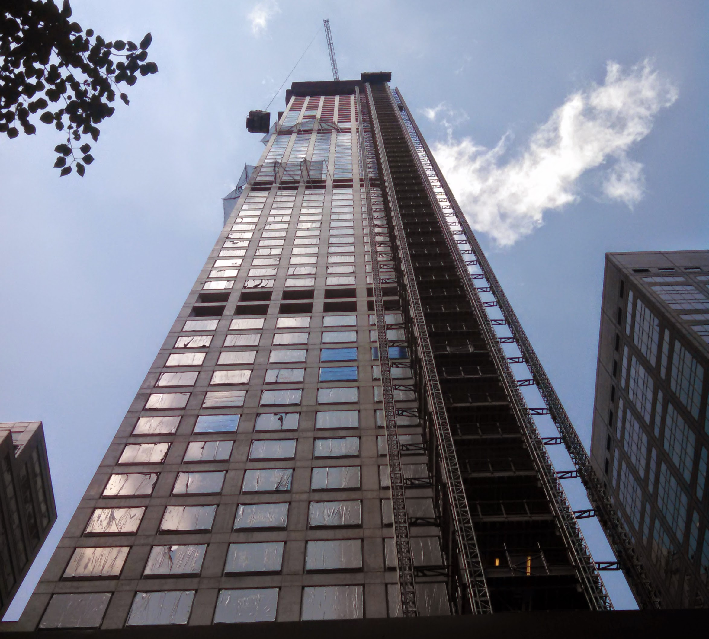 432 Park Avenue, NYC in July 2014 - ground-up view of ongoing construction